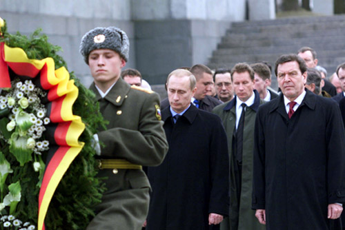 ST PETERSBURG. President Vladimir Putin and German Chancellor Gerhard Schroeder laying a wreath at the Motherland Monument at the Piskarevskoye Memorial Cemetery.